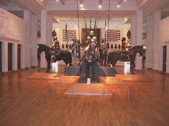 Horse armour at the Royal Armouries, Leeds